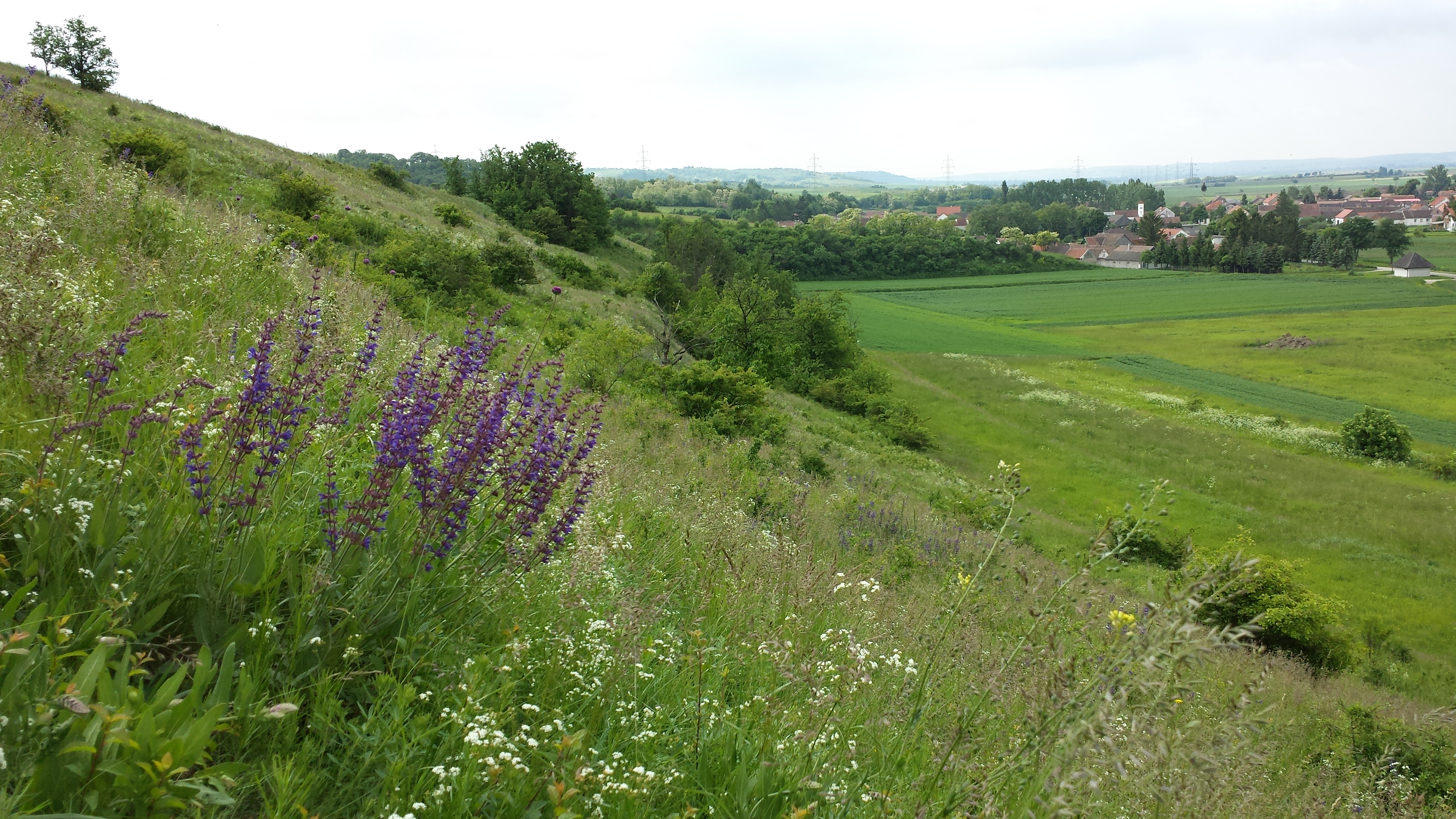 Natural monument Mühlberg near Goggendorf, district Hollabrunn, Lower Austria. View towards South.